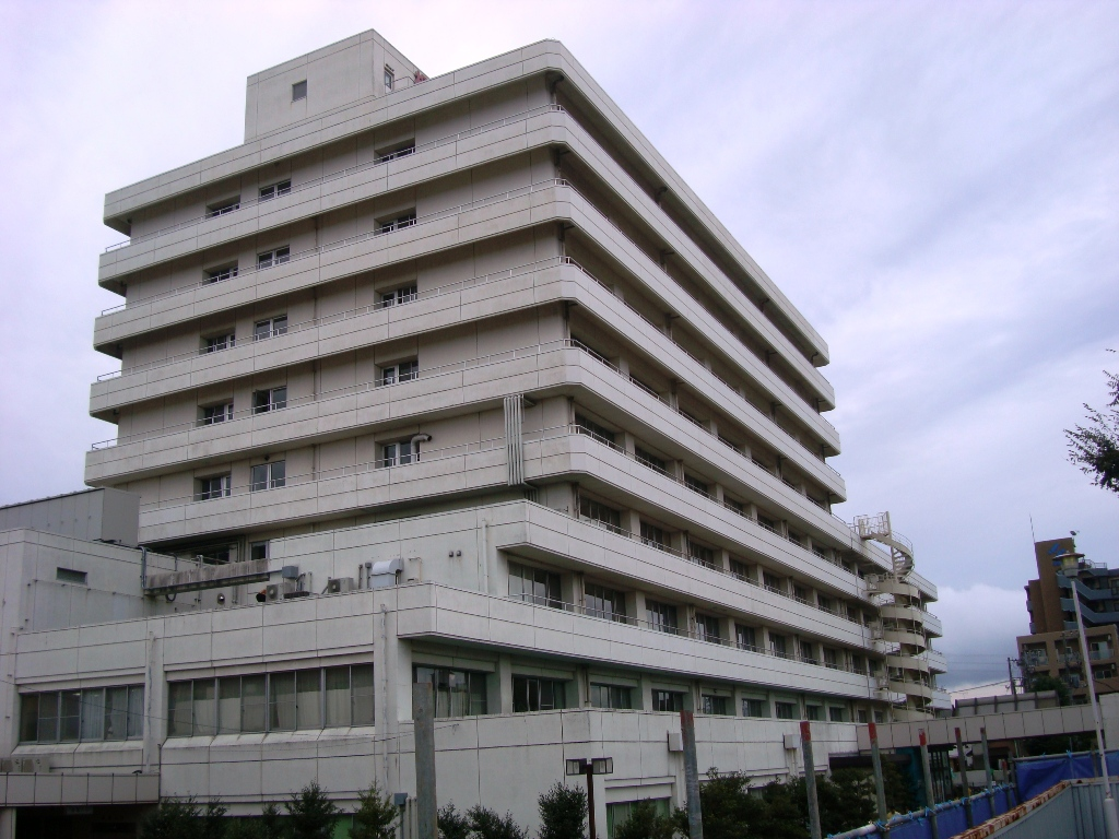 Sagamihara Kyodobyoin Hospital, Kanagawa prefercture, Japan